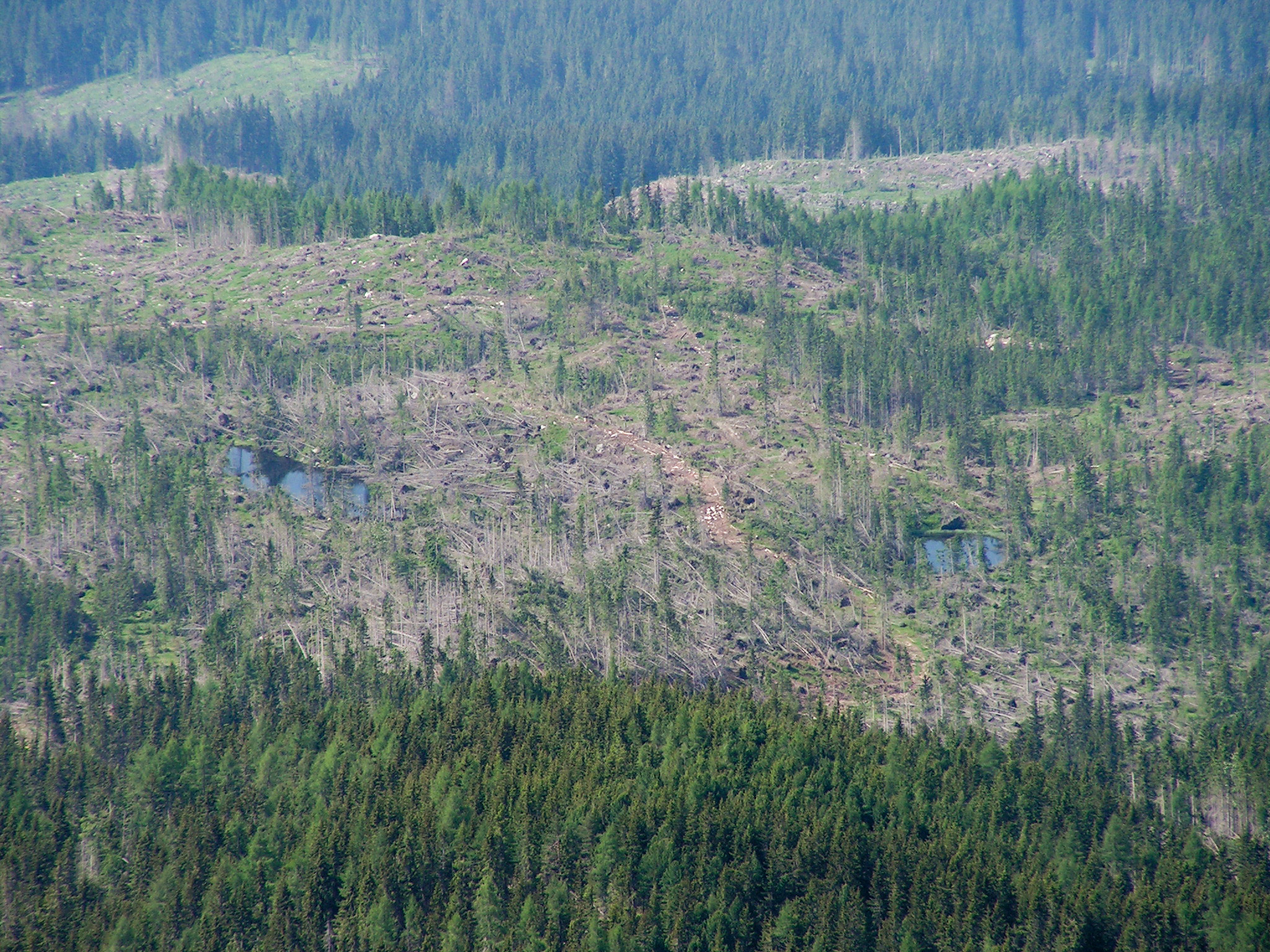 Rakytovské plieska seen from under Predné Solisko.